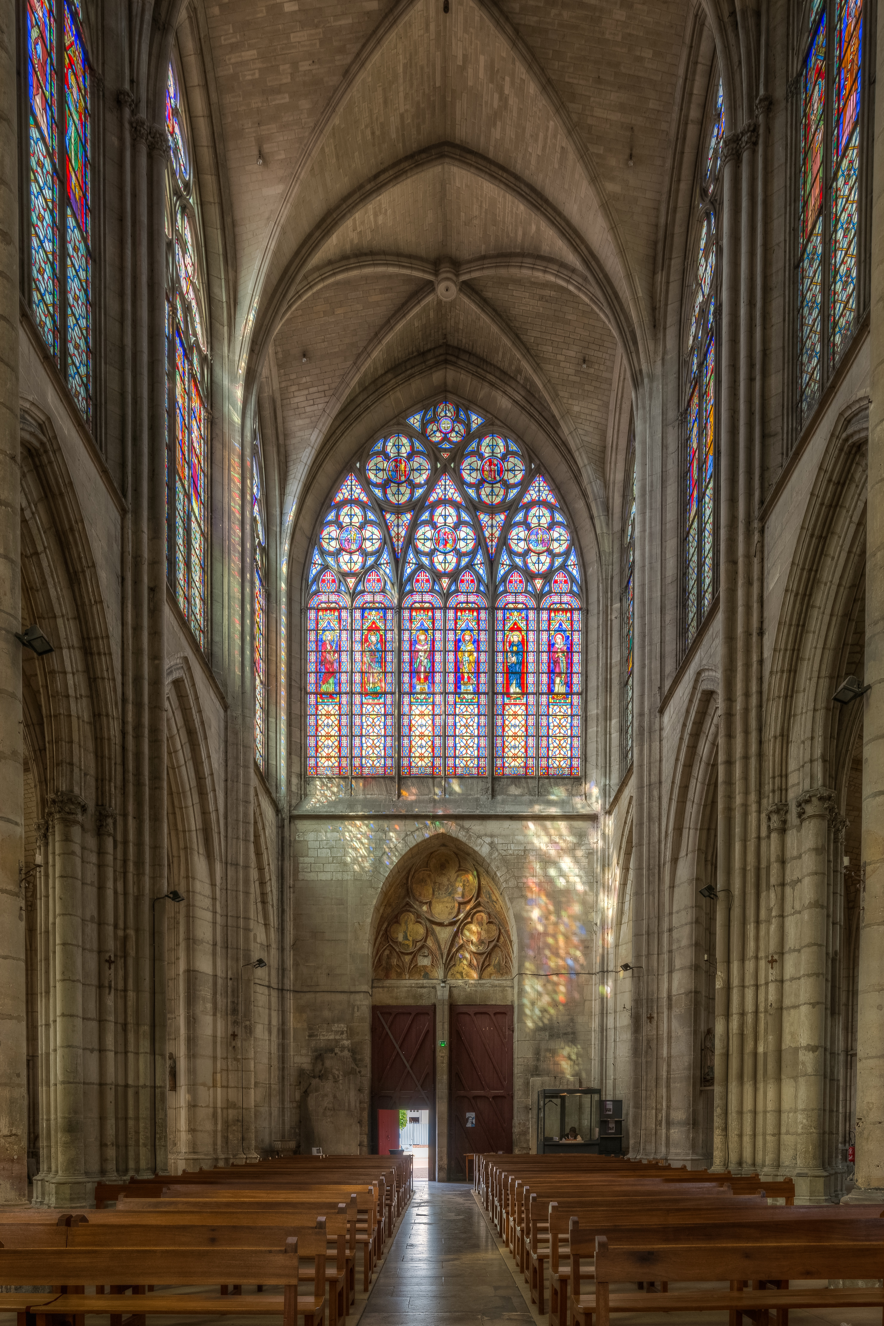 The Interior of the Basilique Saint-Urbain de Troyes, view direction south-east